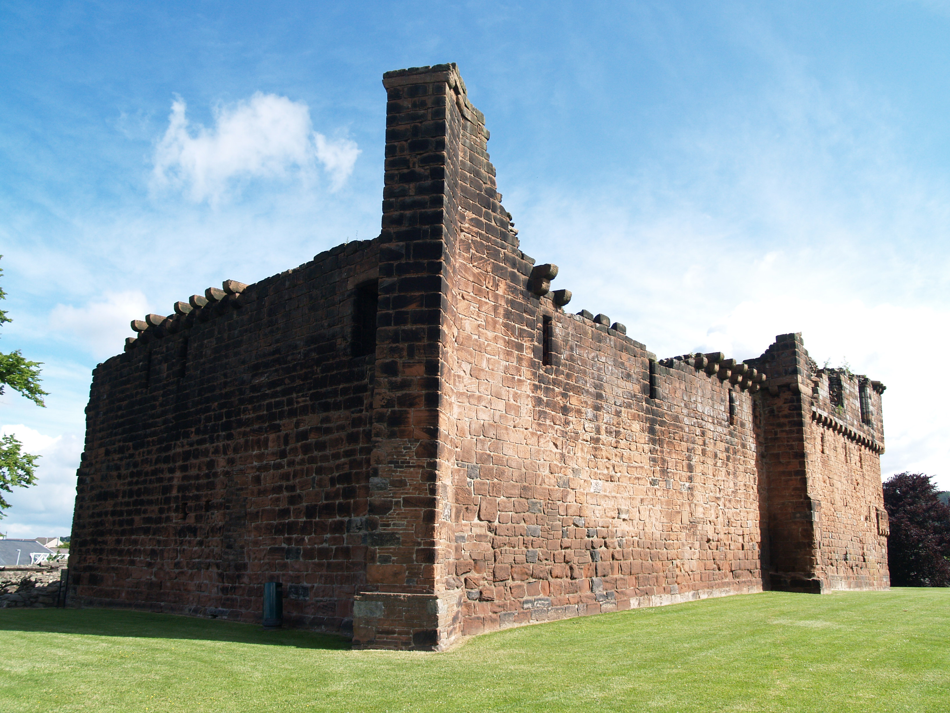 Penrith Castle, Cumbria